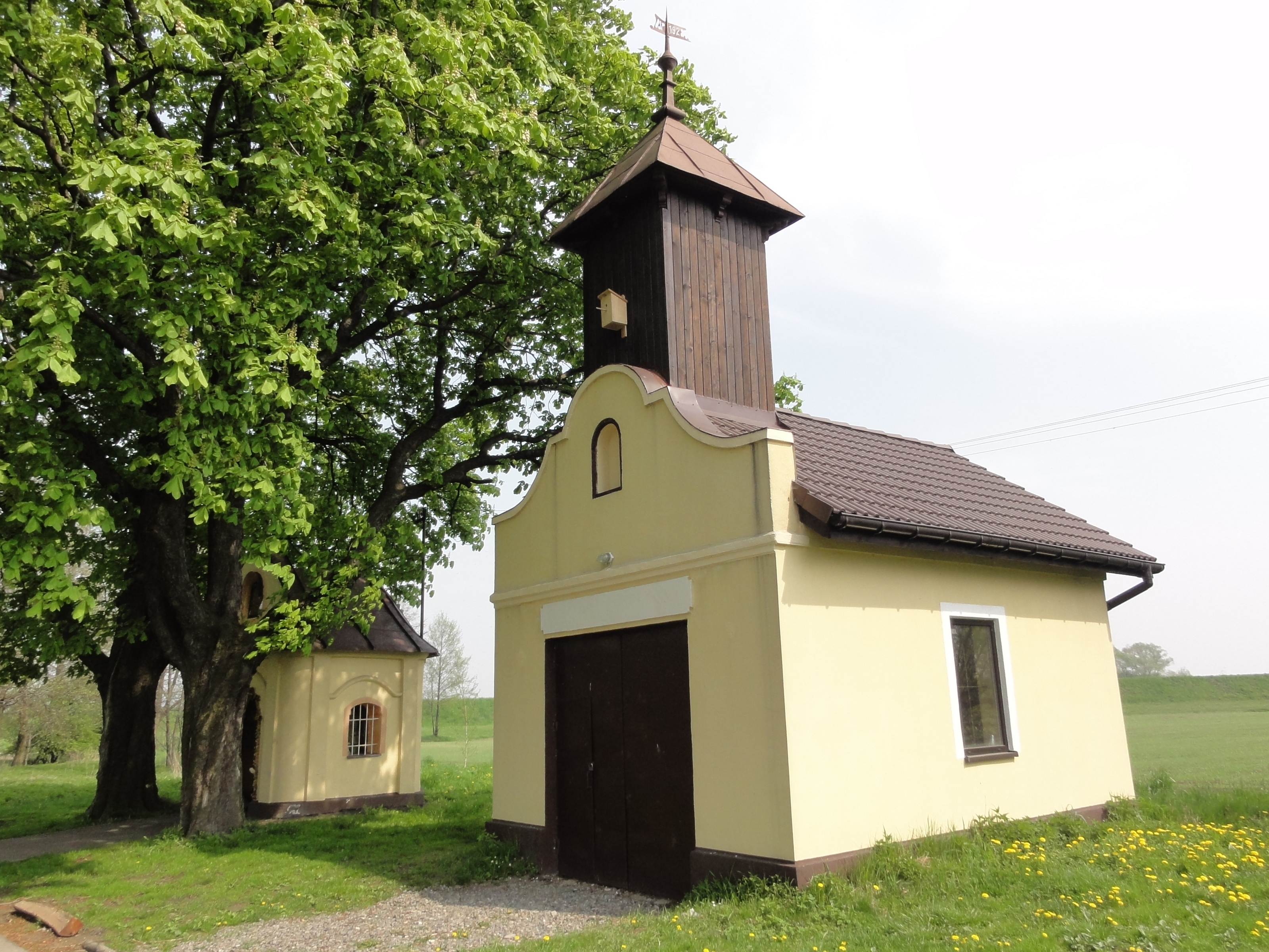 Old fire station and chapel in Zarzecze-Rykalec.